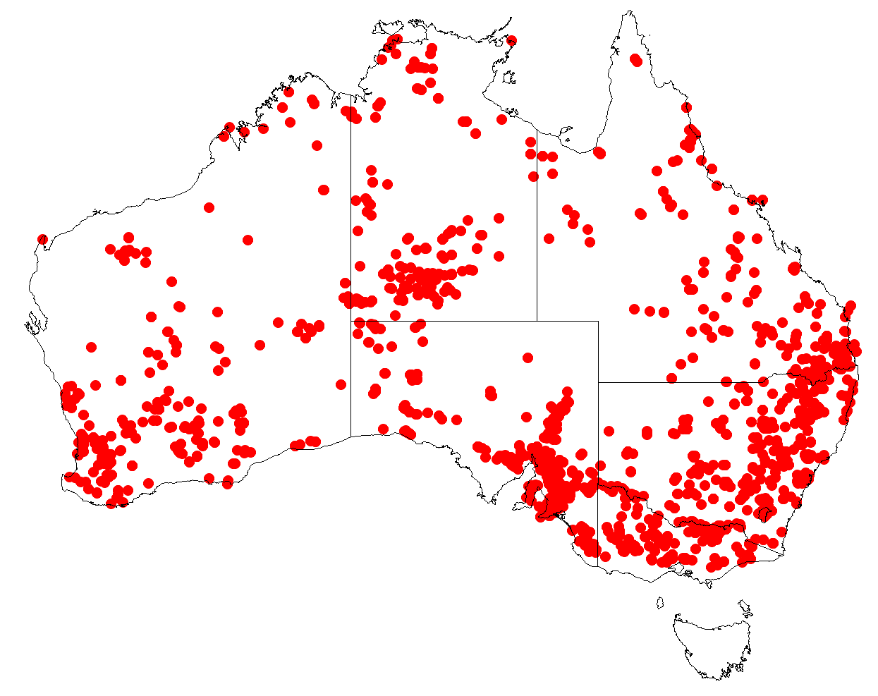 Australian distribution of Amyema miquelii based on download from Australasian Virtual Herbarium May 9, 2018